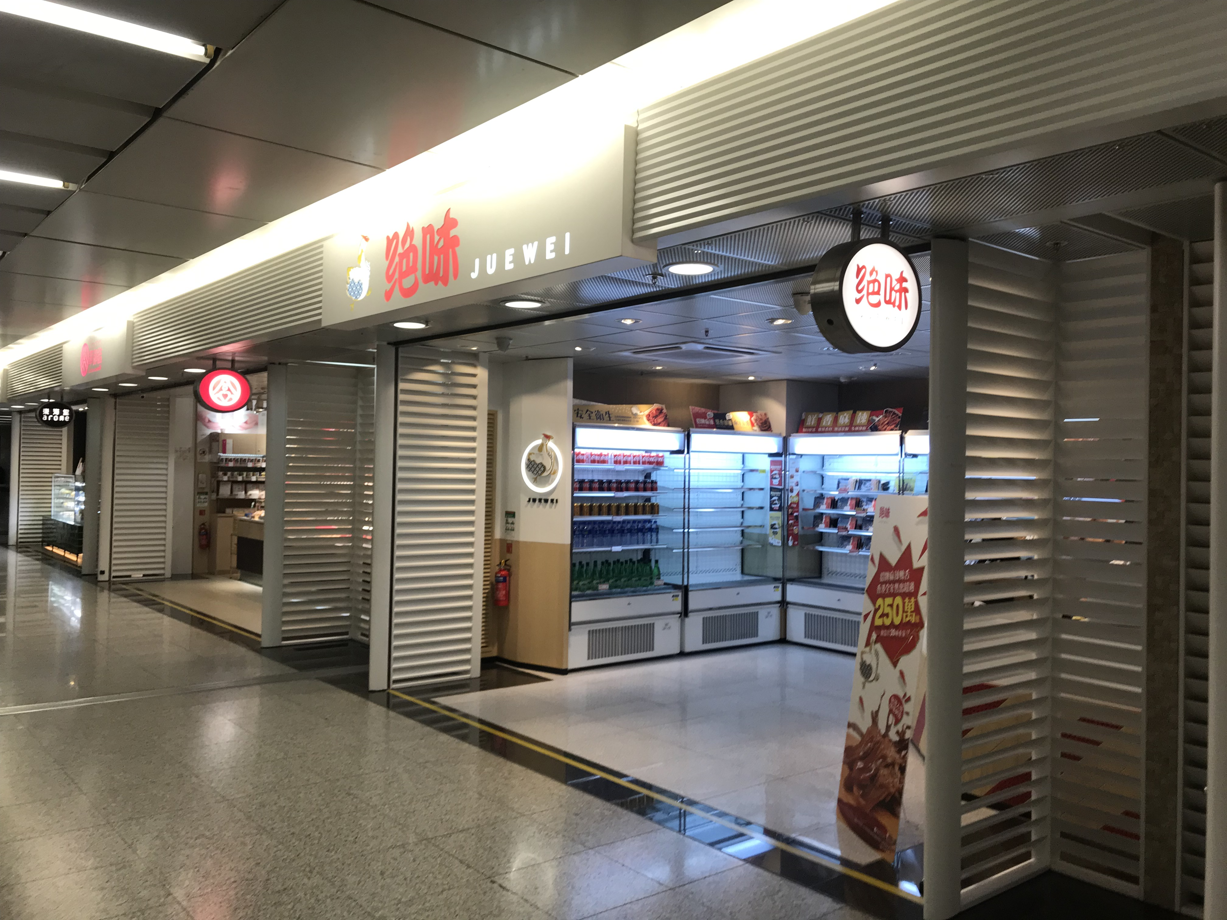 201901 Juewei Duck Neck at Kowloon Station